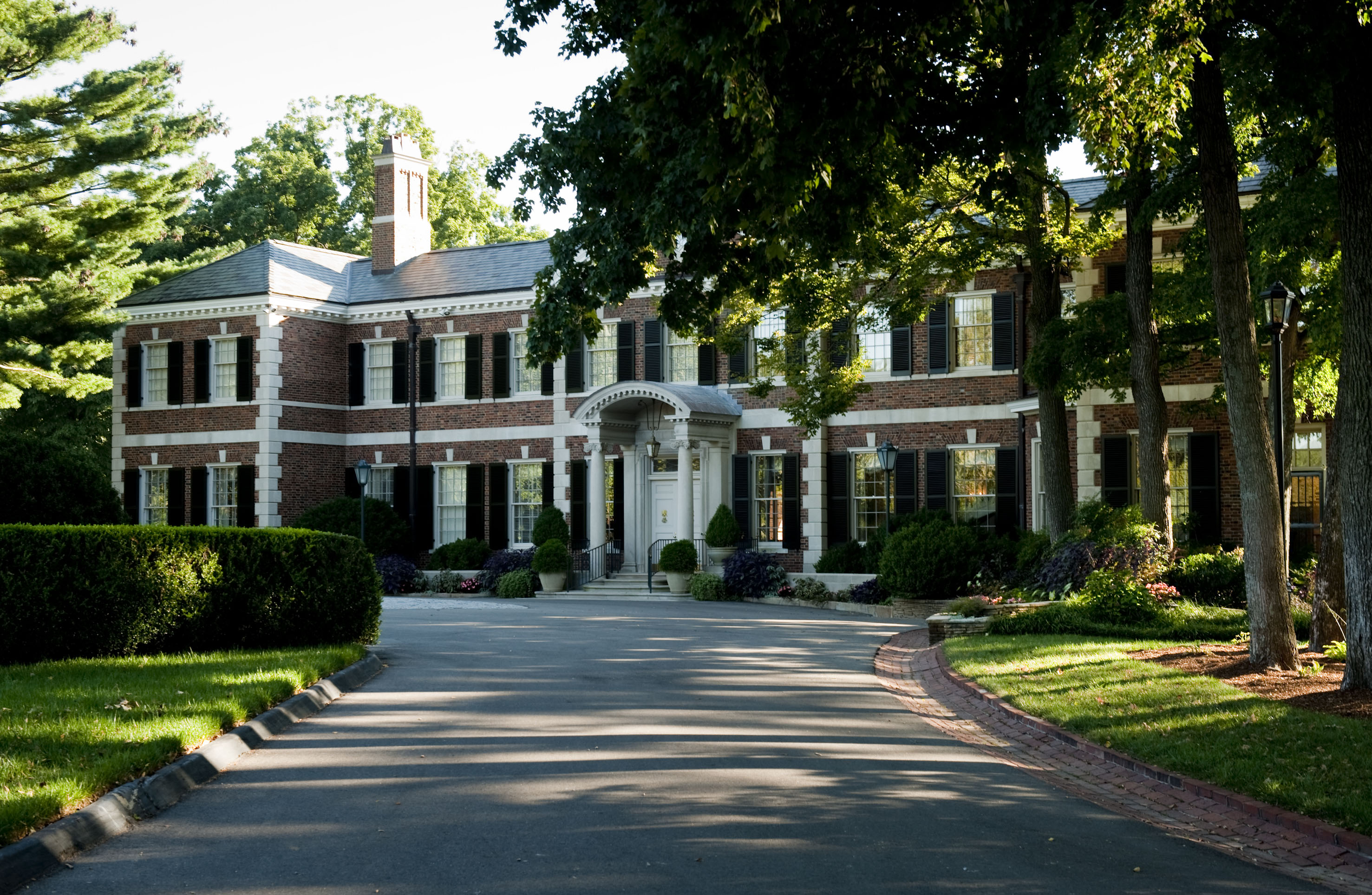 A picture of the Tennessee Governor's Residence.